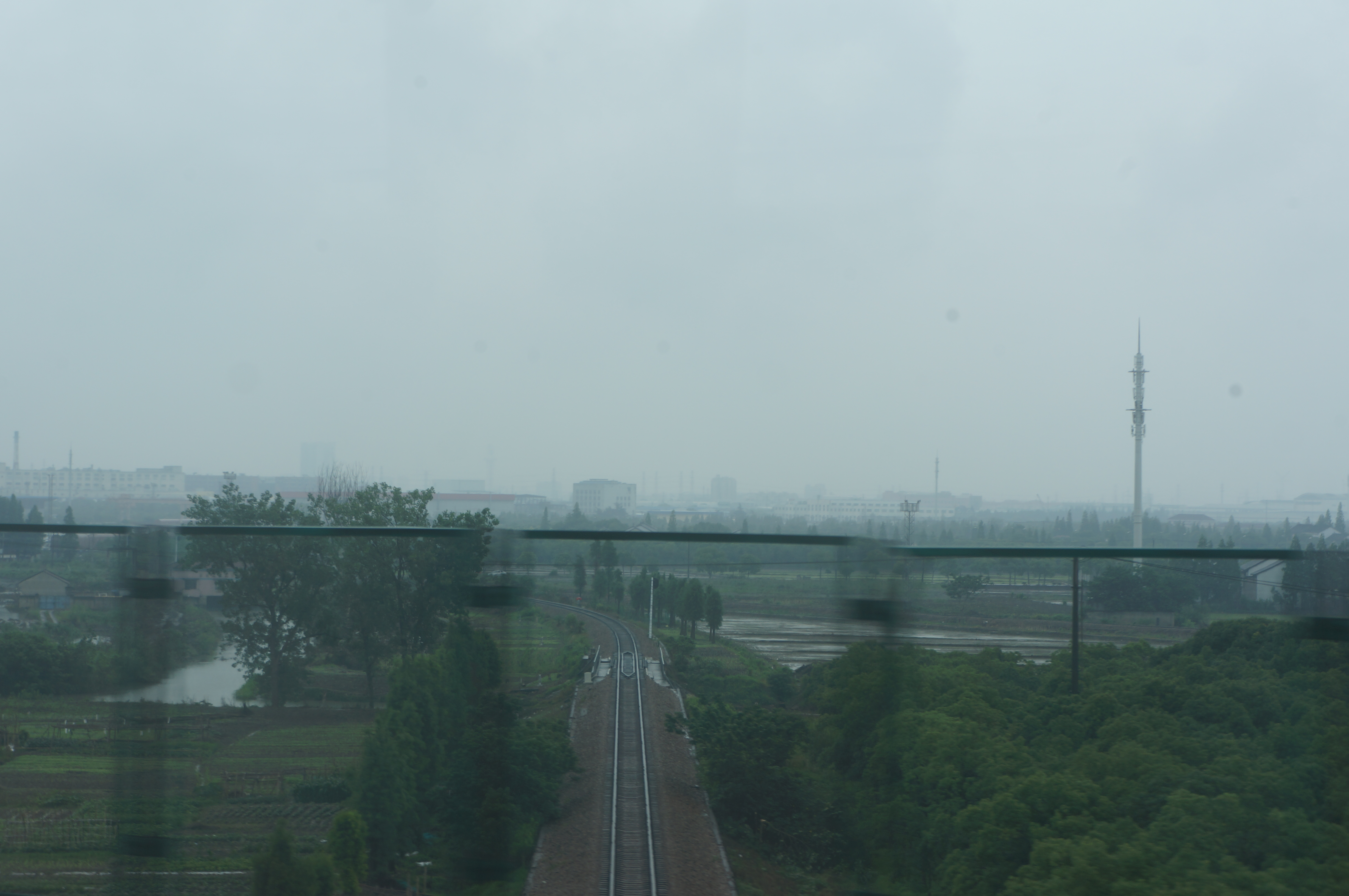 201706 Xinqiao-Minhang Railway in Minhang